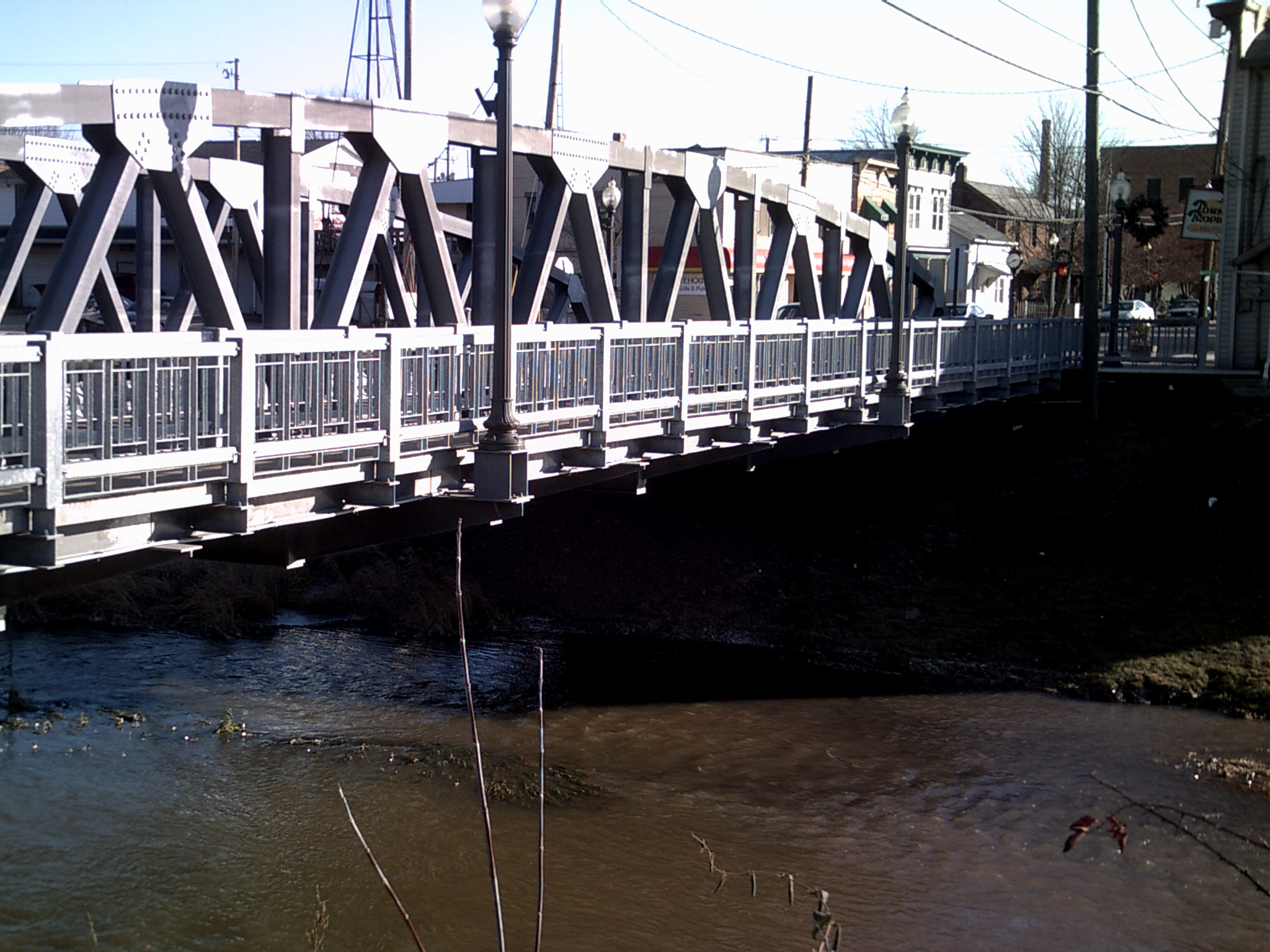 Malvern Ohio Bridge in Malvern, Ohio.